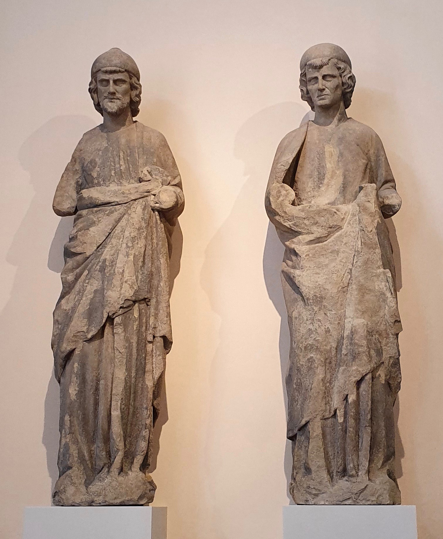 The Prophets Isaiah and Jeremiah-Trier um 1240-Bode Museum